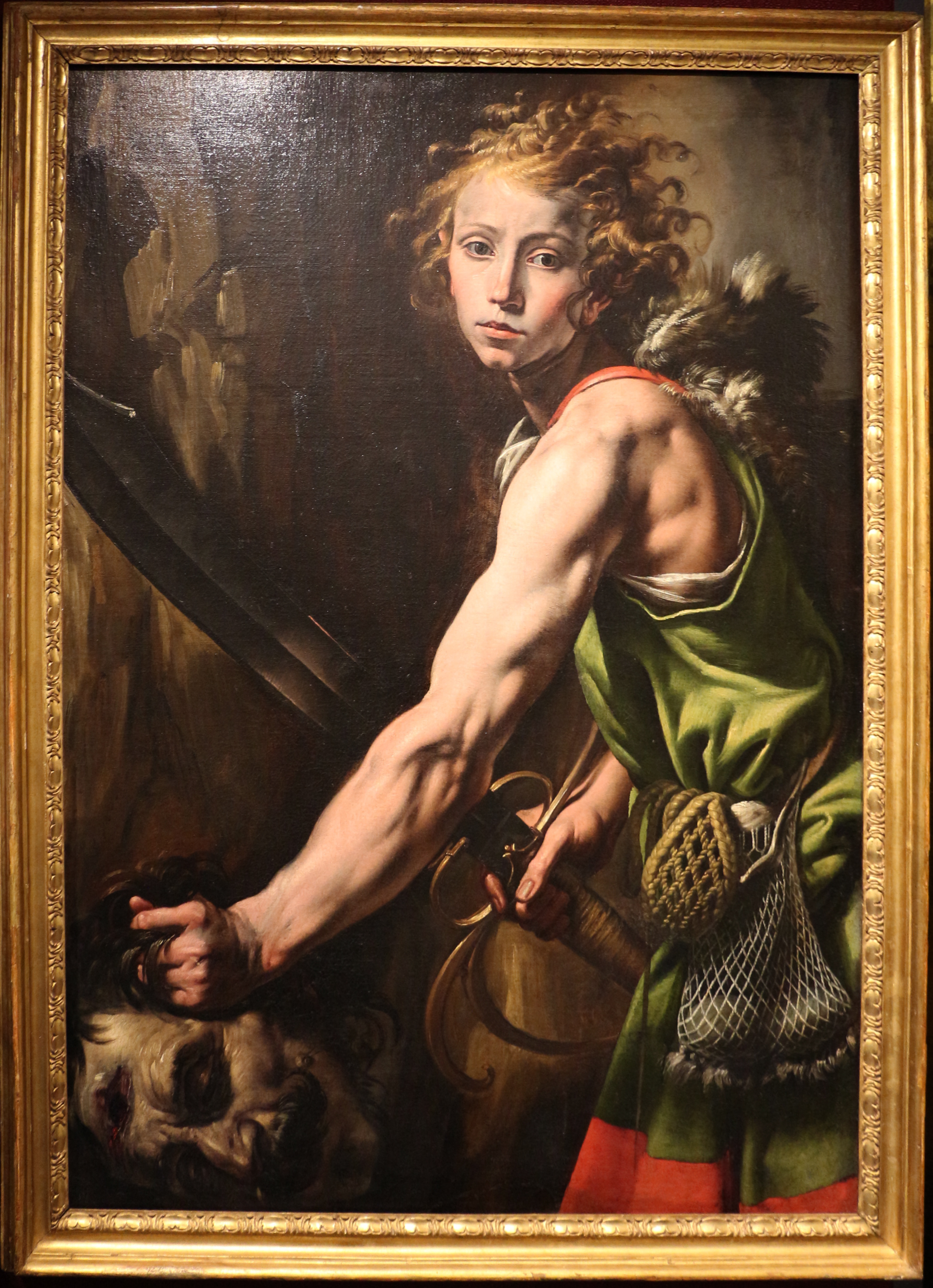 Il Tesoro d'Italia (exhibition at Expo 2015)